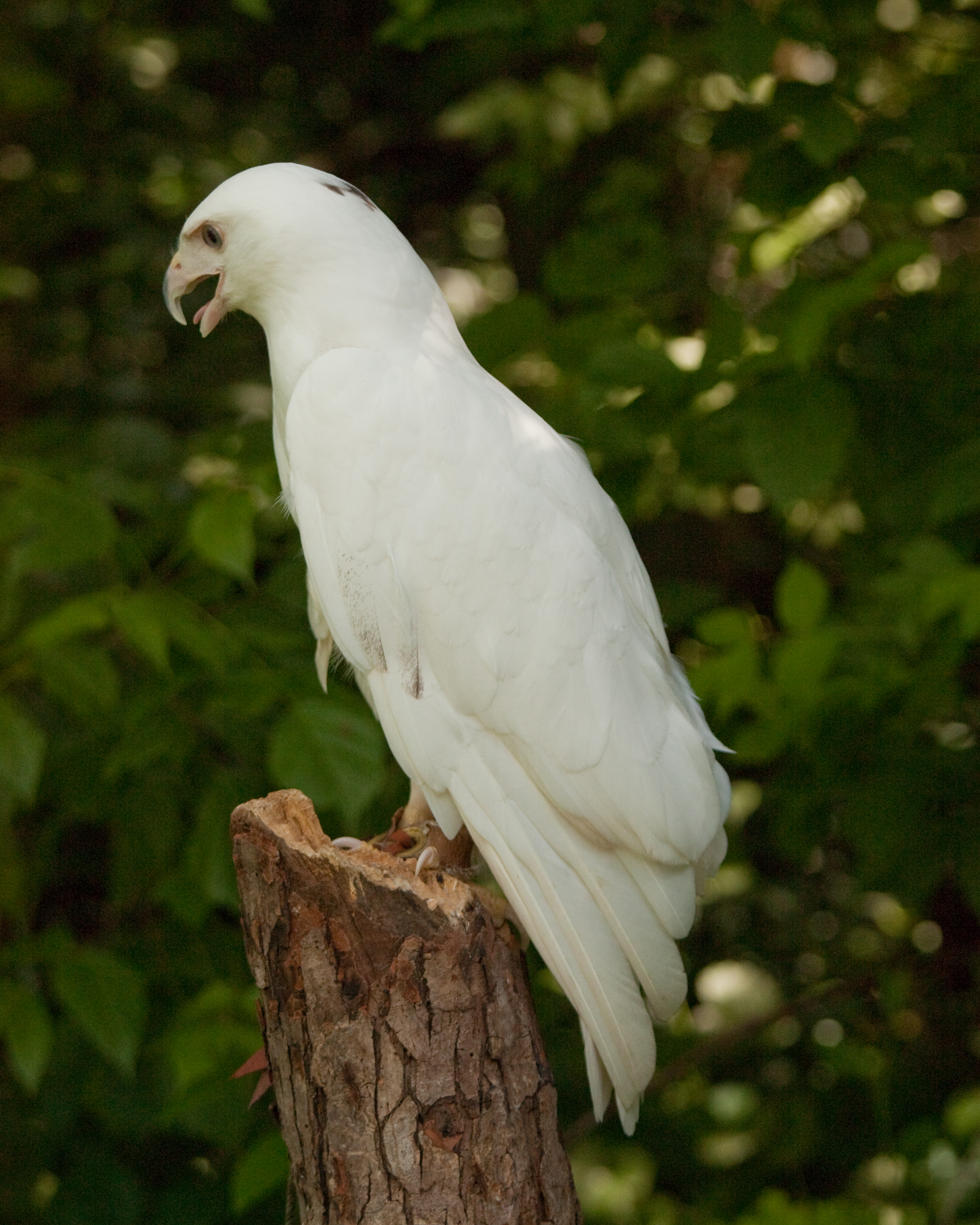 Leucistic hawk cared for at Cincinnati Raptor Inc.